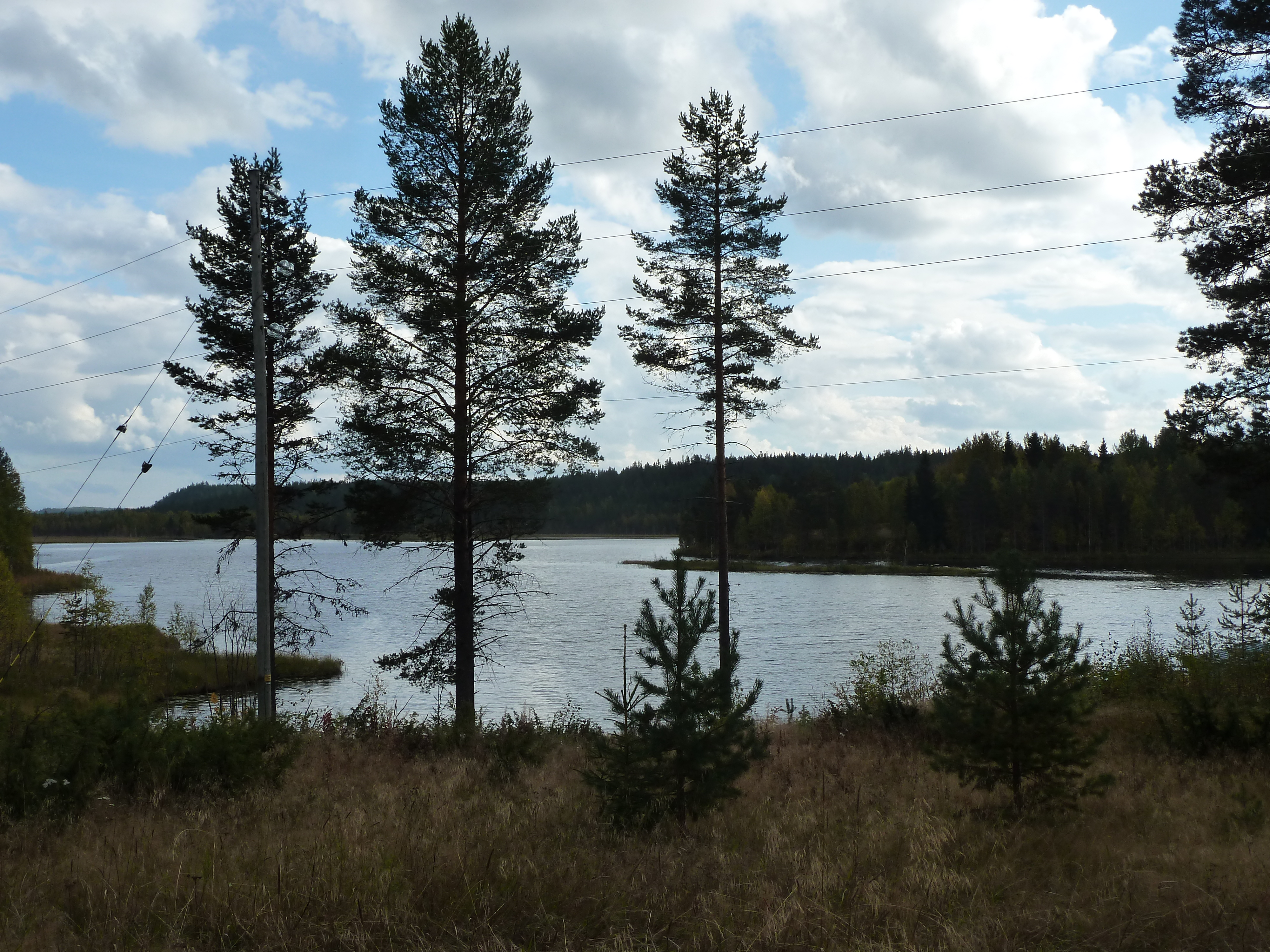 Åbosjön in the north of Örnsköldsviks municipality, Västernorrlands län, Sweden.